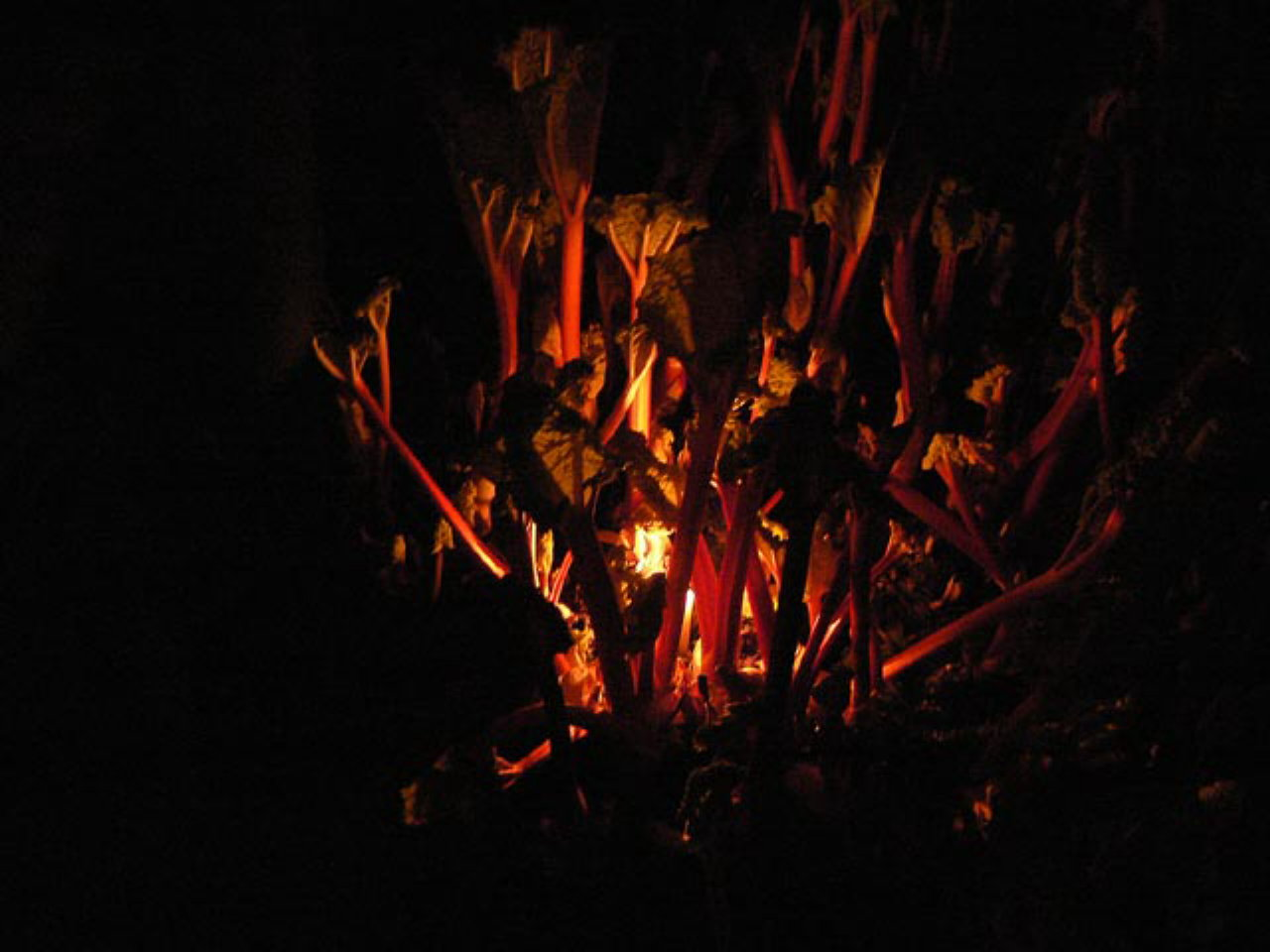 Rhubarb by candlelight